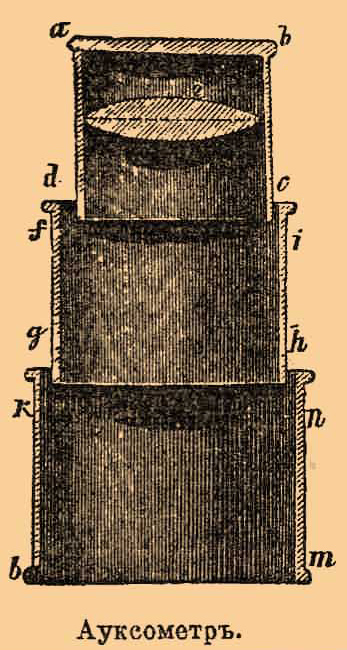 Illustration from Brockhaus and Efron Encyclopedic Dictionary (1890—1907)